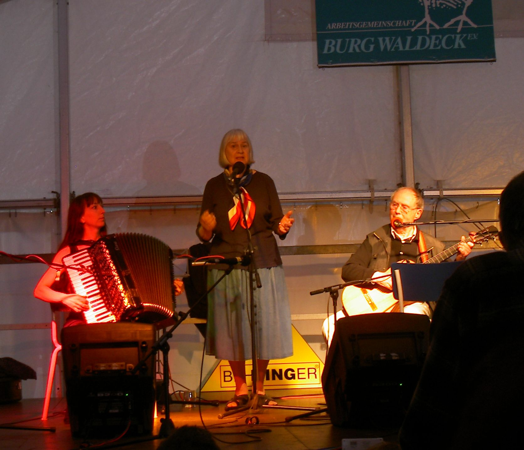 "Hai und Topsy" (Heinrich and Gunnel Frankl), singer-songwriters from Sweden, with Mirjam (accordion) at the 2004 "Burg Waldeck" song festival, Germany